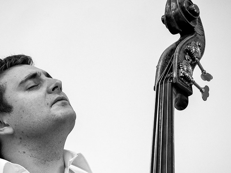 Thomas Fonnesbæk in Aarhus, Denmark 2018